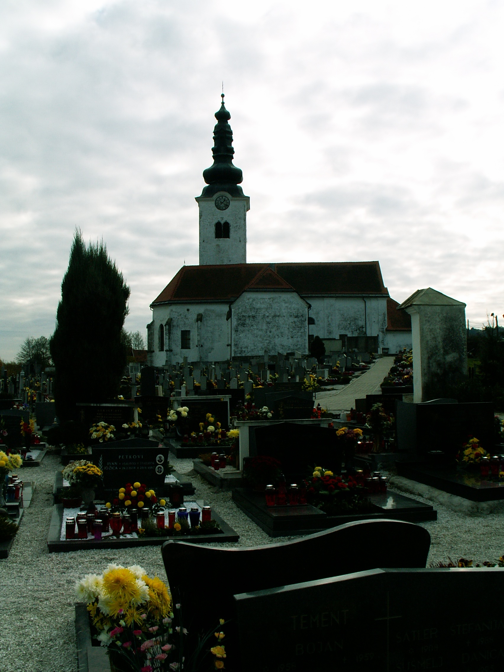 Slivnica pri Mariboru church and cemetery